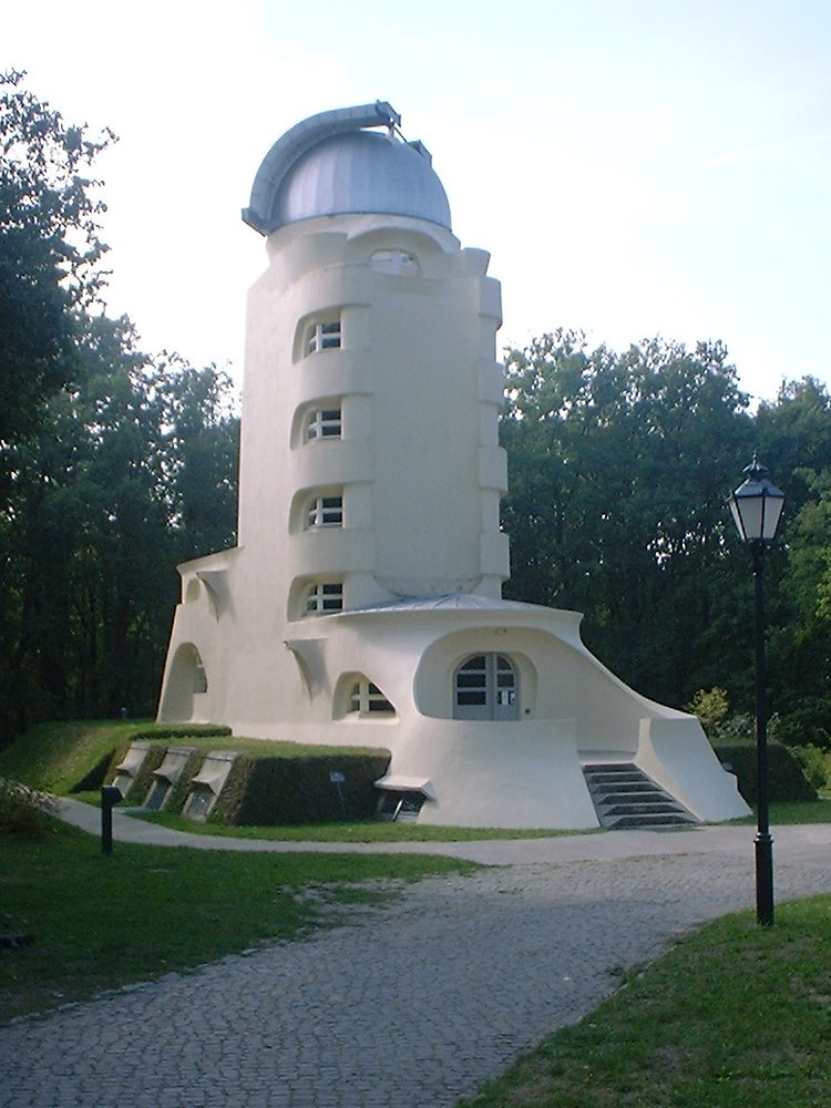 Einstein Tower in Potsdam, Germany